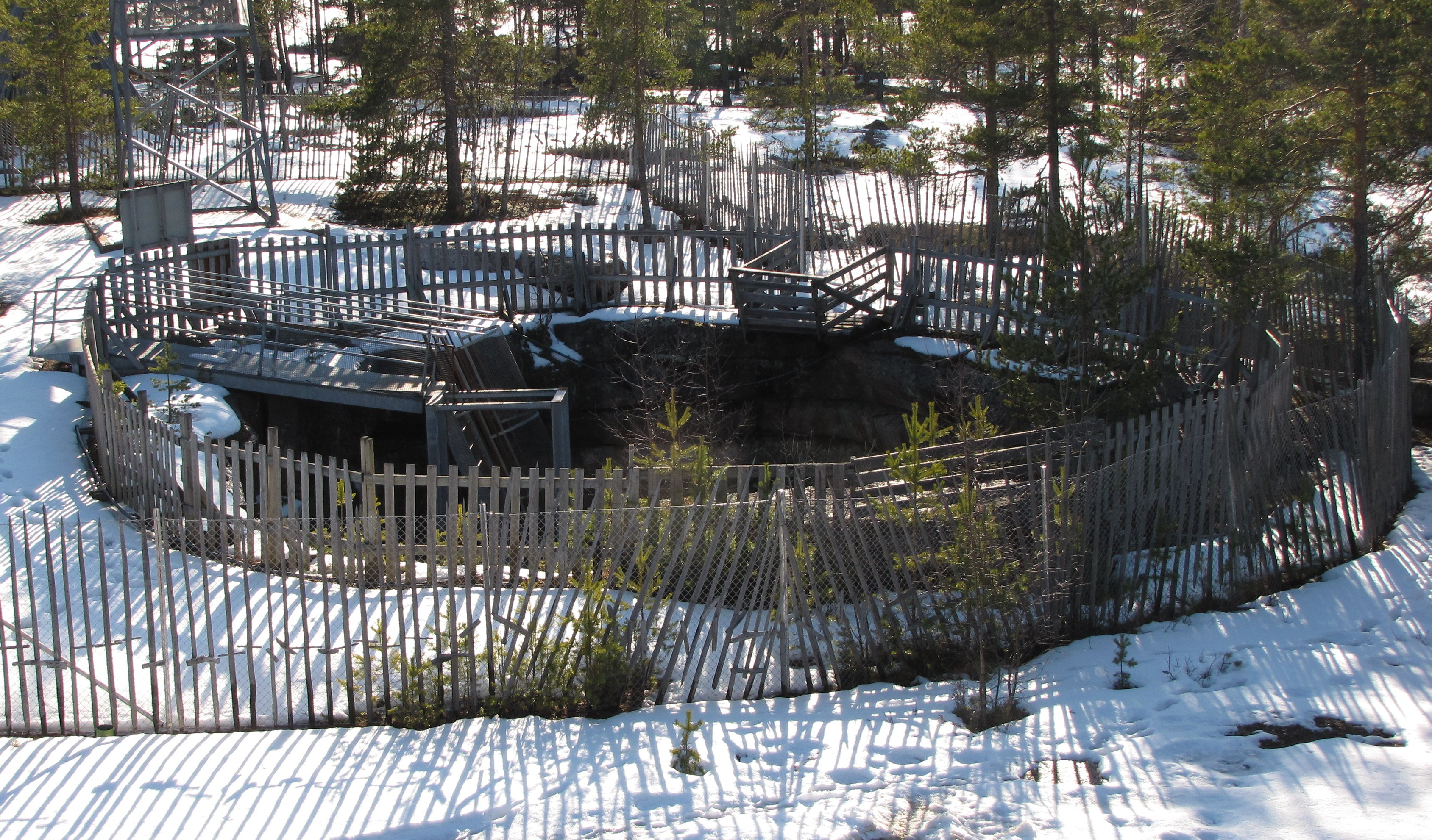 ”Pirunpesä” on the top of Isovuori hill, Jalasjärvi, Finland.